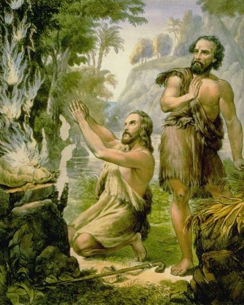 Cain and Abel